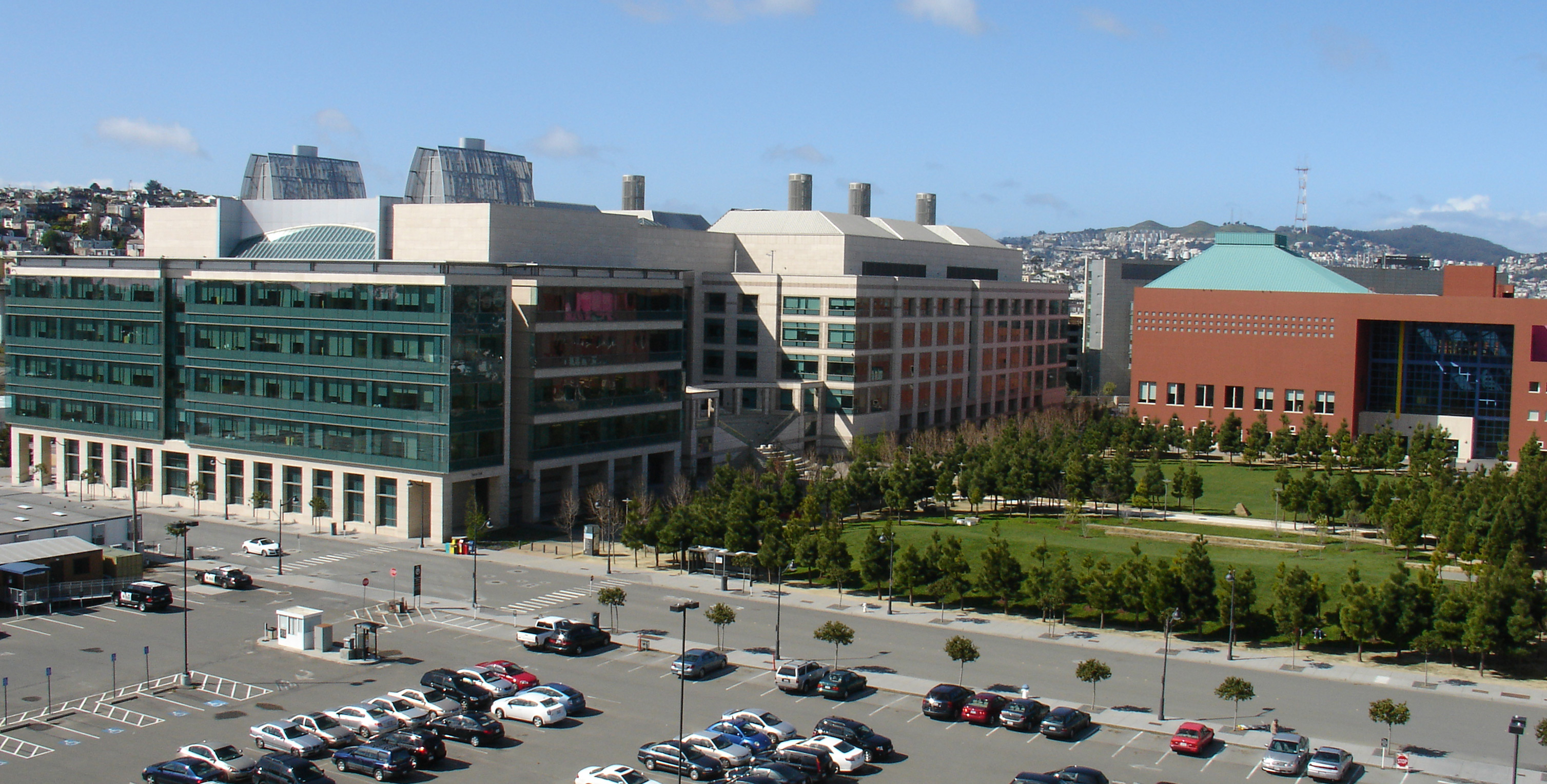 UCSF - Mission Bay Campus seen from the 3rd street garage. From the left: Byer's Hall, Genentech Hall and William J. Rutter Center. In the middle Koret Quad green area.